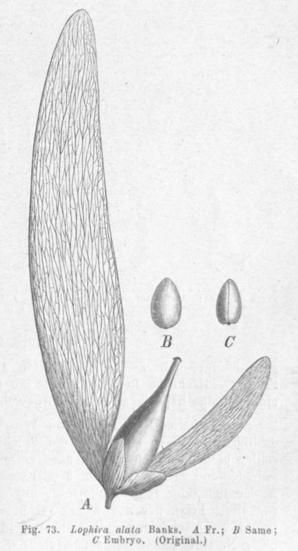 Illustration of the fruit of Lophira alata auct. (probably Lophira lanceolata) (Ochnaceae)